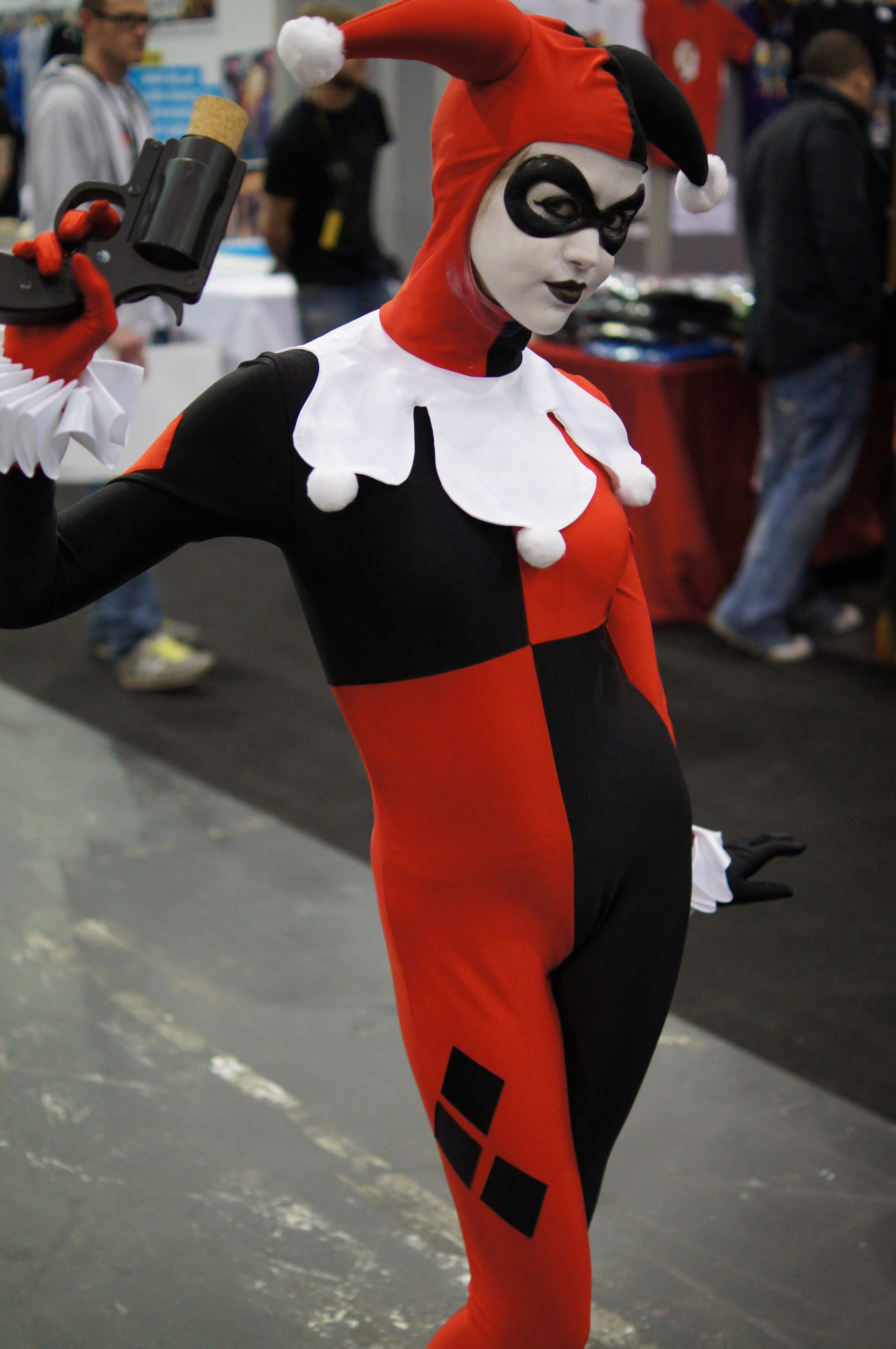 Harley Quinn Cosplay at London Super Comic Convention 2012.